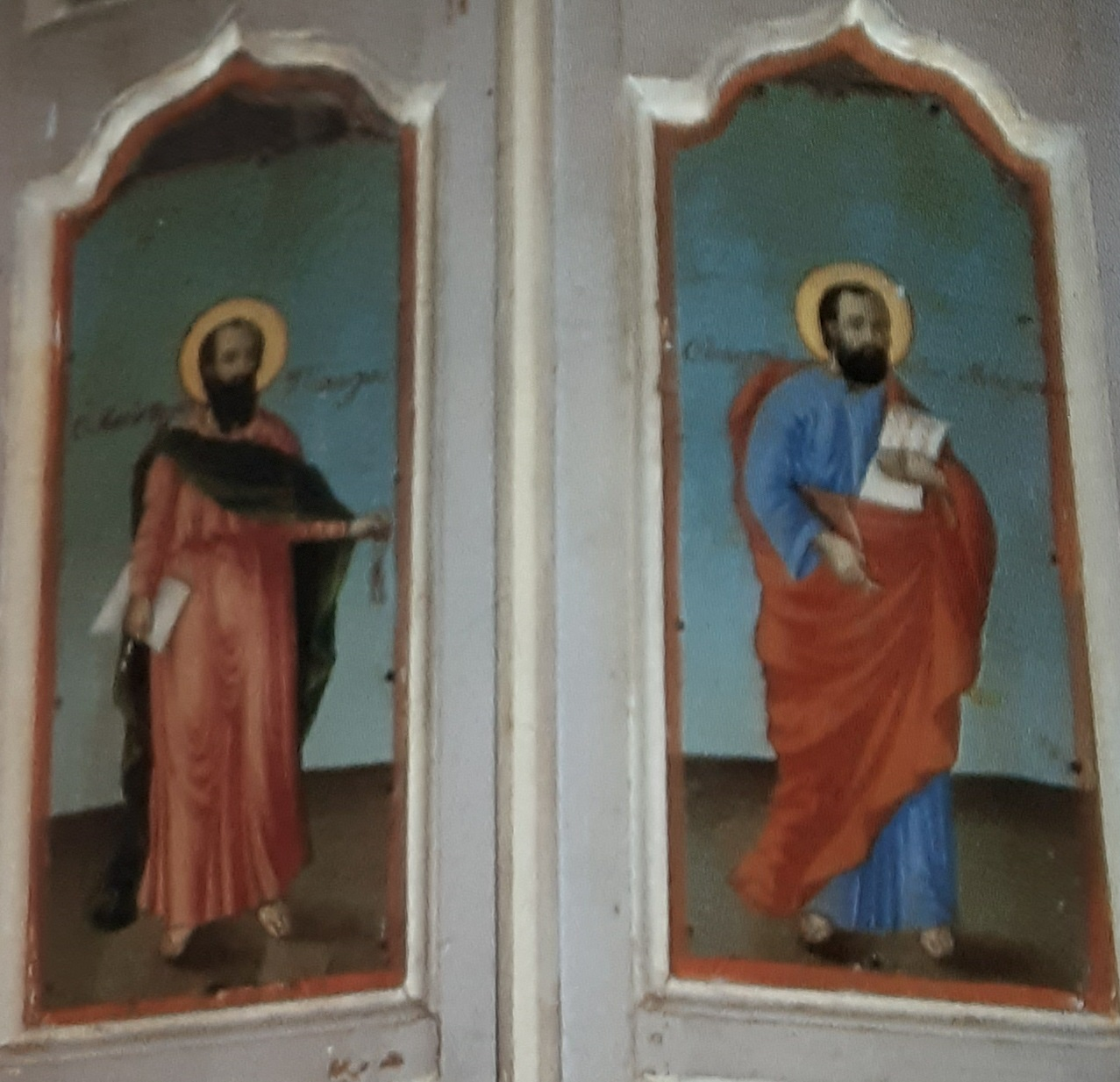 Saint Demetrius of Barlaam Church